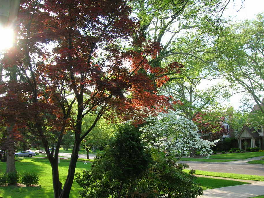 Bexley, Ohio neighborhood in Spring.